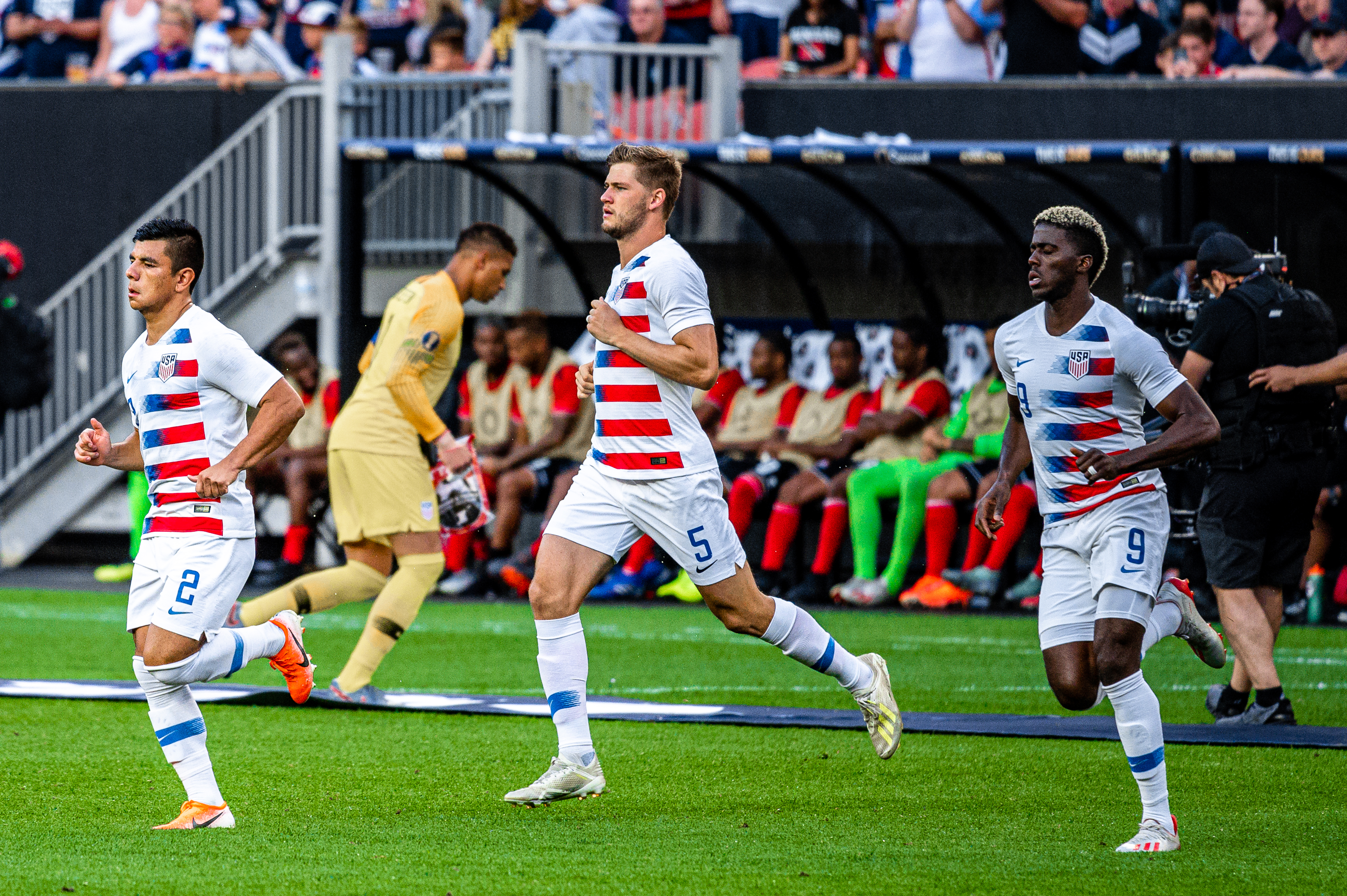 USMNT vs. Trinidad and Tobago